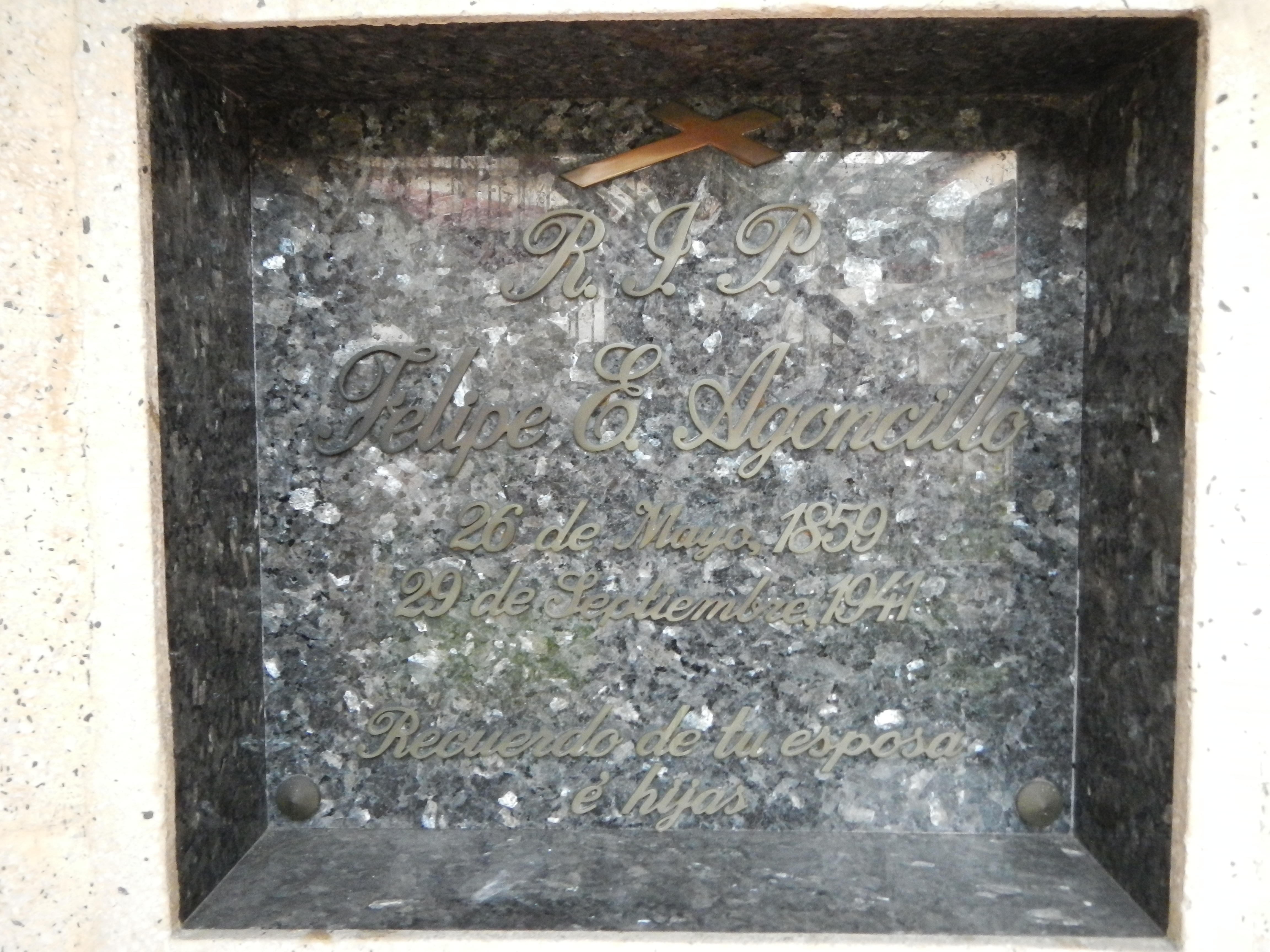 Graves of [1]Felipe Agoncillo [2]Marcela Mariño de Agoncillo San Juan, Metro Manila[3] 1602 Santuario de Santo Cristo Parish Church (Church of Santo Cristo), the Church of San Juan del Monte - NHI Marker